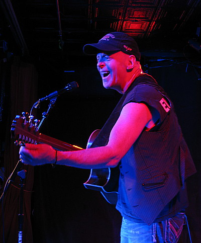 Willy Porter playing at The Saint in Asbury Park, NJ, on 07152013. Photo by LHCollins.